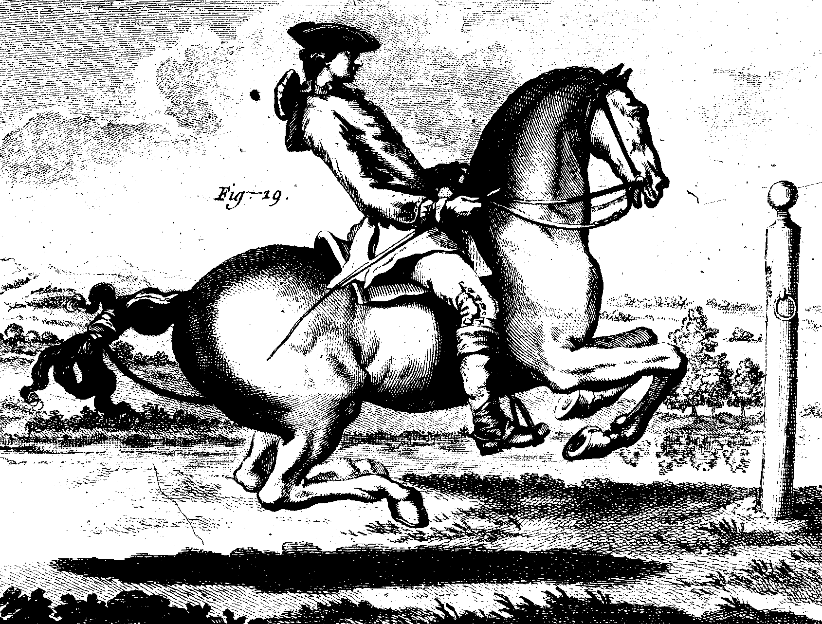 The croupade (above)